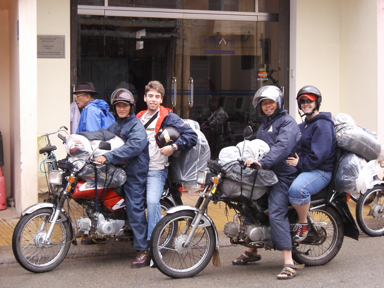 Tourists in Da Lat